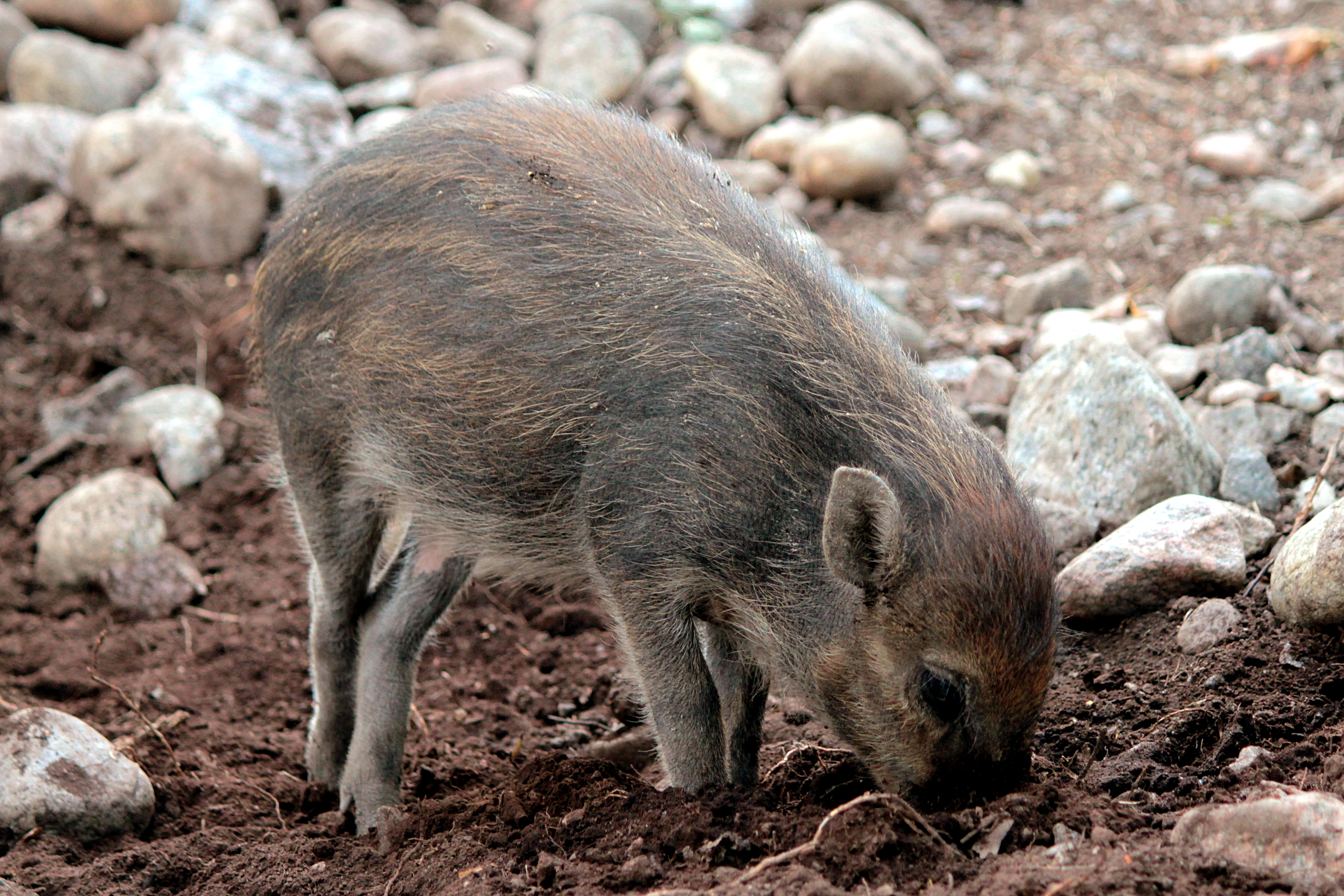 Piglet of Visayan warty pig (Sus cebifrons negrinus) at Parken Zoo, Eskilstuna, Sweden.